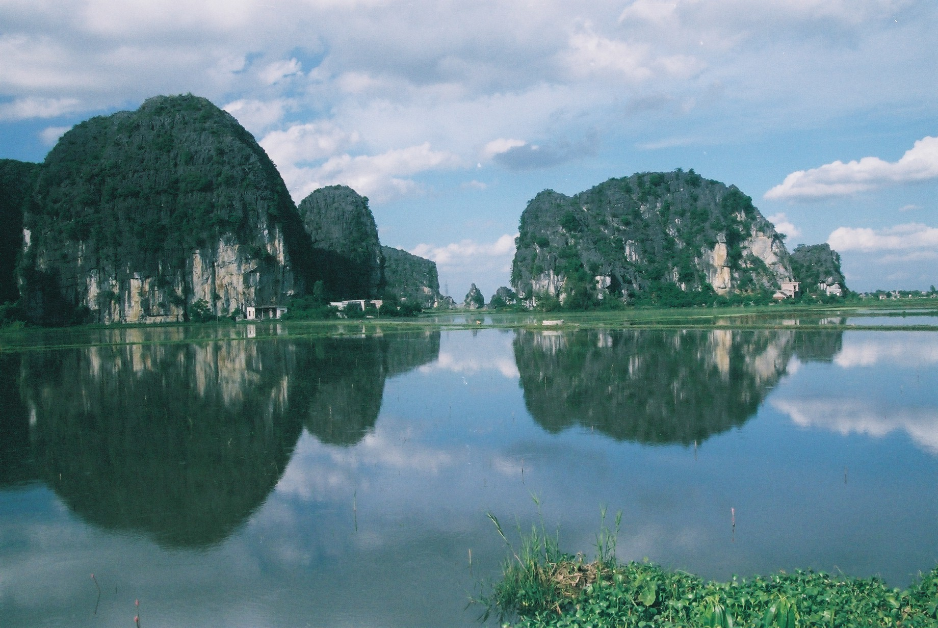 Scenery in Ninh Binh province, Vietnam.